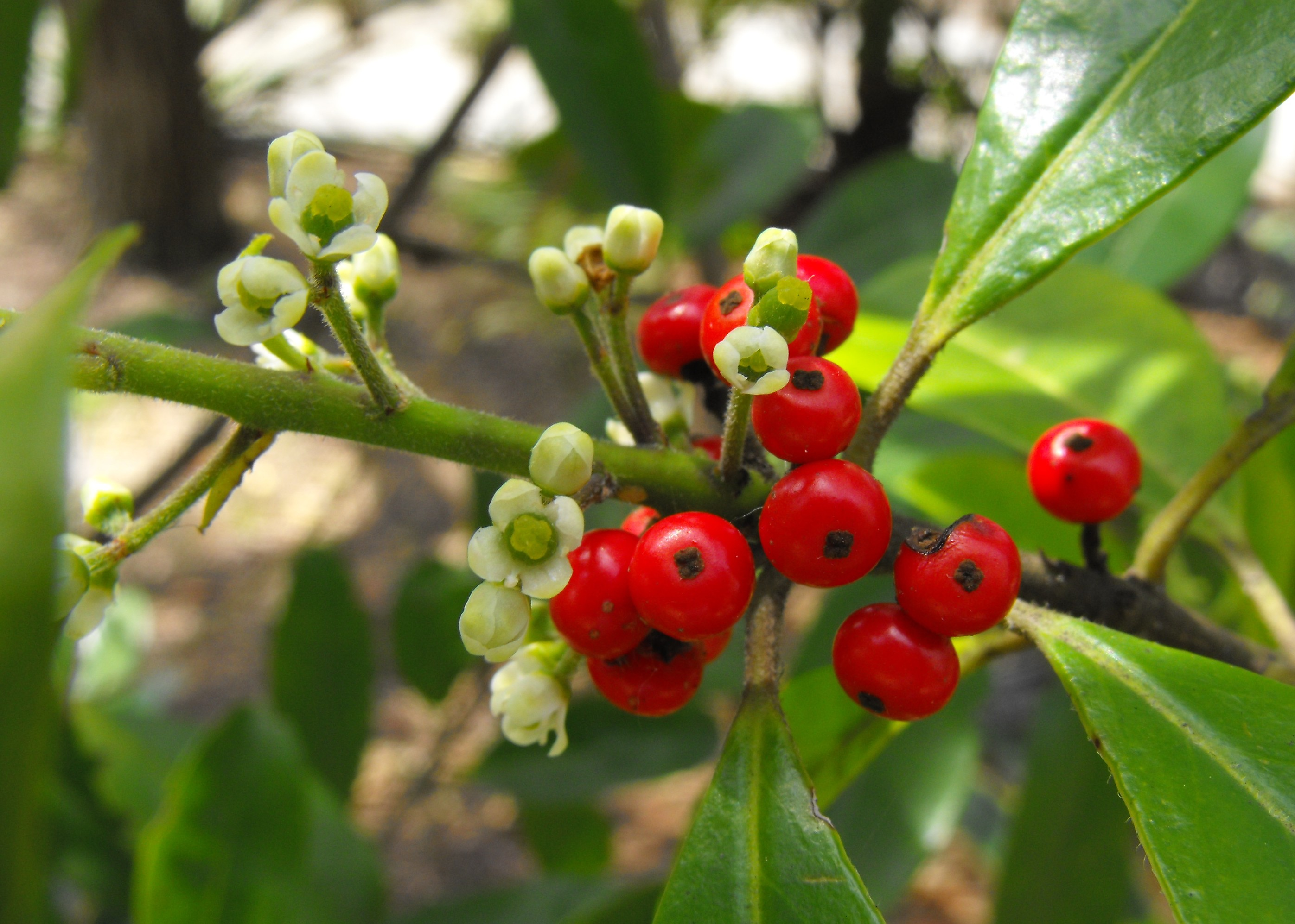 Ilex paraguariensis at the San Diego Botanic Garden in Encinitas, California, USA. Identified by sign.